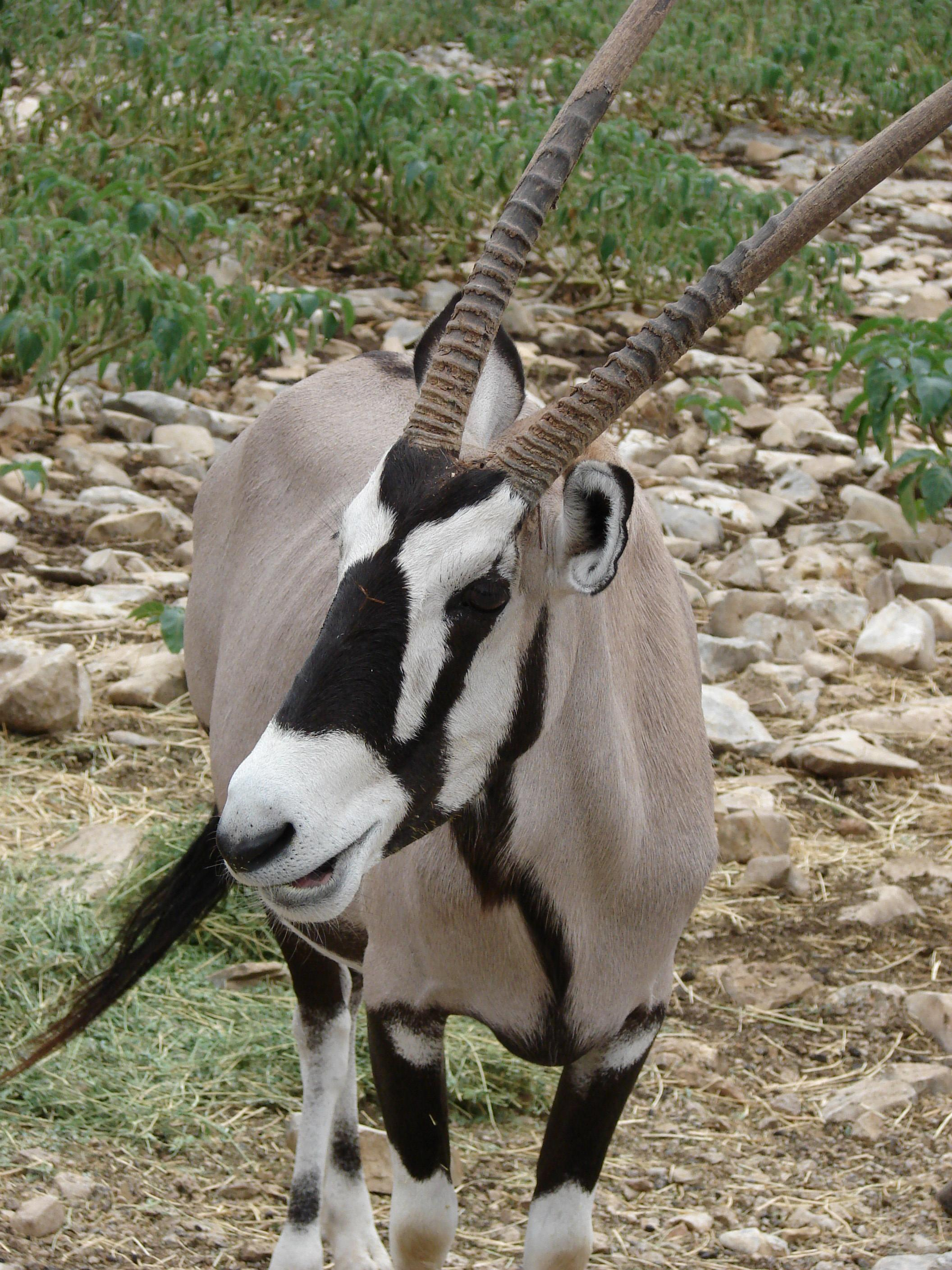 Photo taken by me in July, 2004.